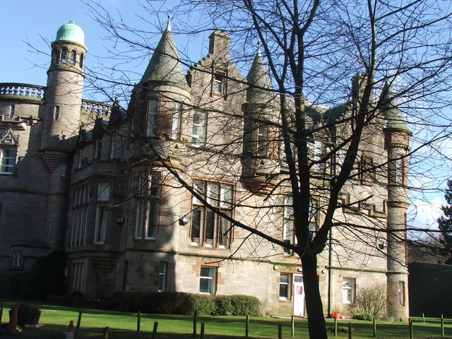 Ballikinrain